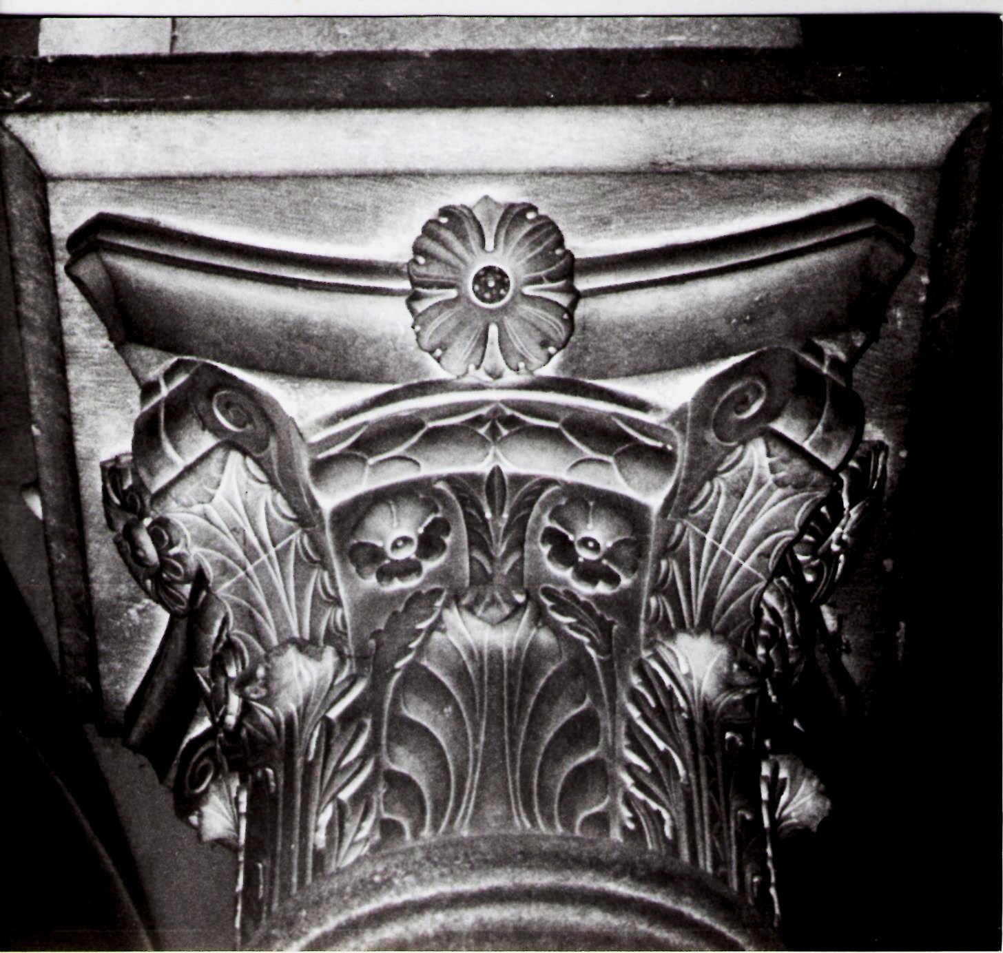 Church of Sant'Alessandro, Lucca. A capital example of medieval classicism.